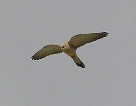 Falco naumanni (male), taken in the Gilboa mountain, Israel